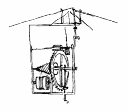 Drawing of a machine incorporating a fusee, by Leonardo da Vinci circa 1490. This is one of the earliest drawings of a fusee. I can't tell what the machine is, or which of Leonardo's notebooks it comes from. Does anybody know?